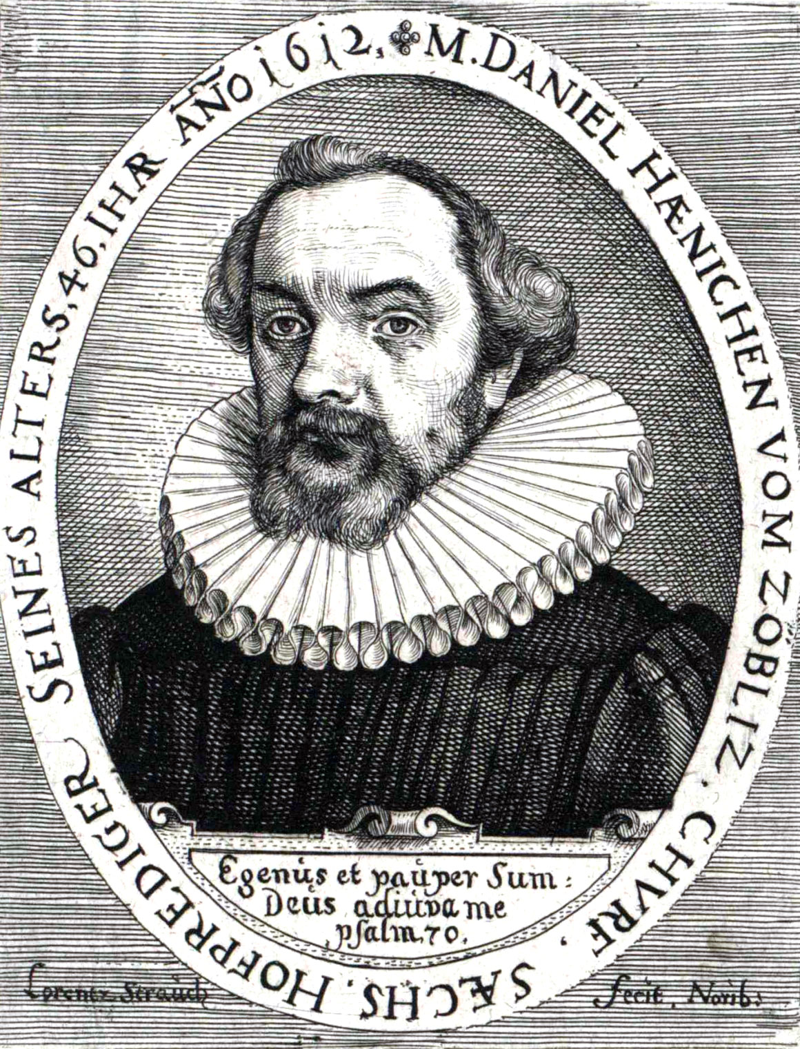 Daniel Haenichen (1566-1619), German protestant Theologian